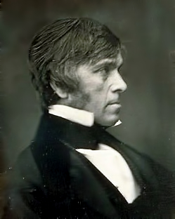 Quarter-plate daguerreotype of Thomas Carlyle